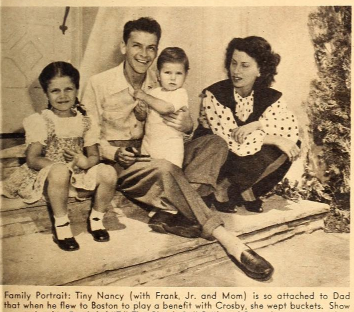 L to R: Little Nancy Sinatra, Frank Sinatra, Frank Sinatra, Jr. and Mom (Nancy Barbato), 1946